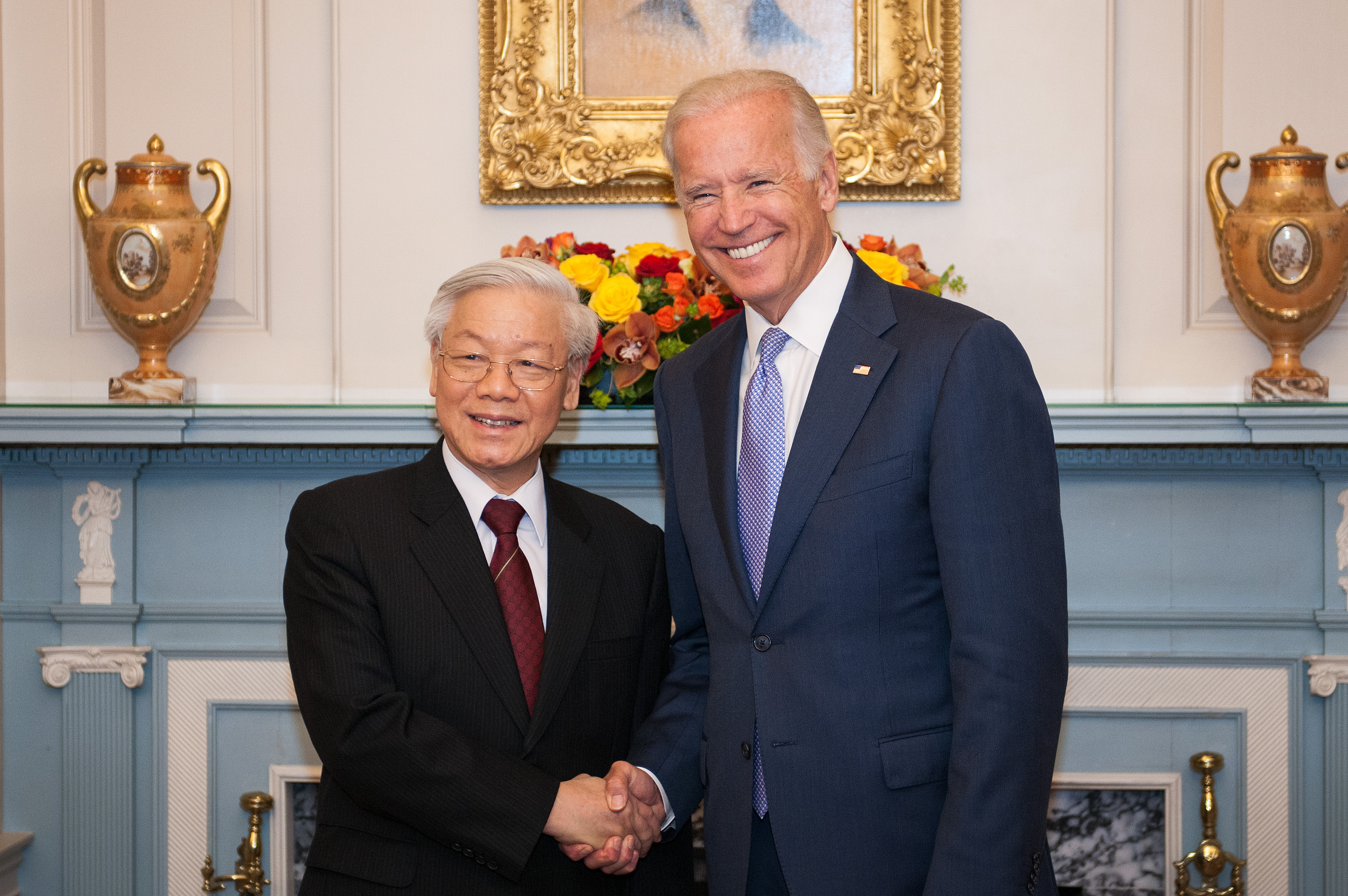 Vice President Biden shakes hands with General Secretary Nguyen Phu Trong at a luncheon at the U.S. Department of State in Washington, D.C. on July 7, 2015. [State Department Photo/Public Domain]